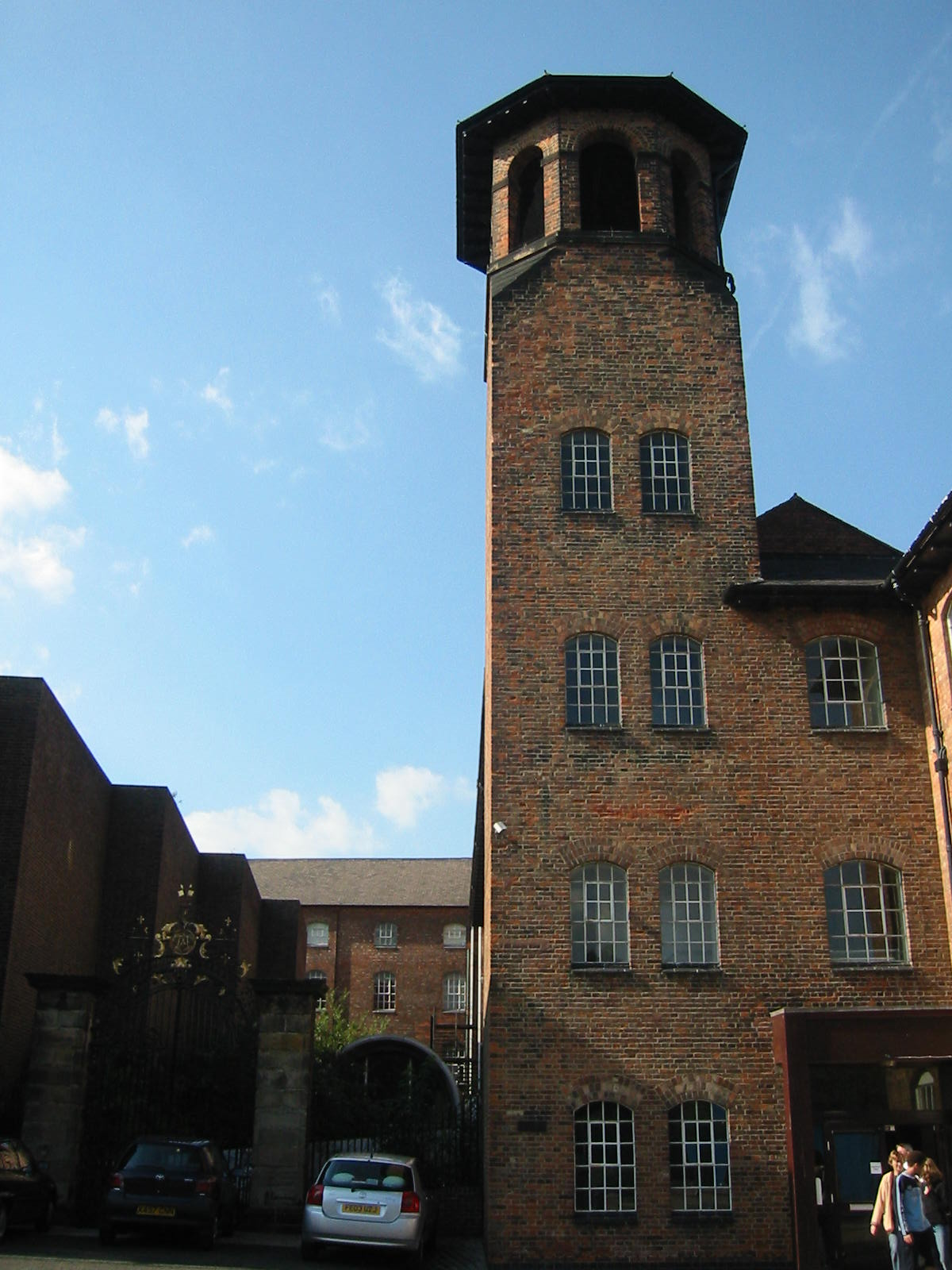 Exterior shot of the Derby Silk MIll Museum showing the tower